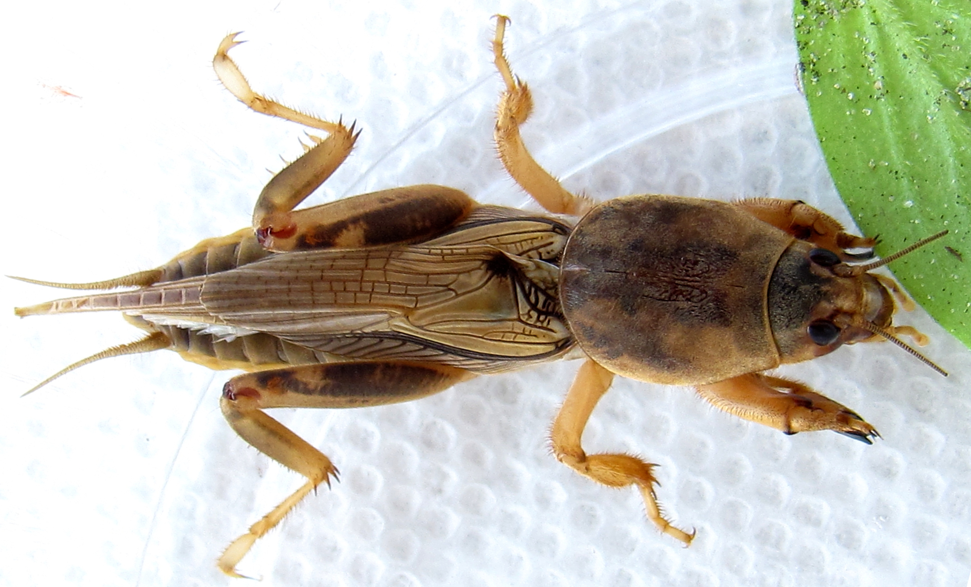 Tawny Mole Cricket - Scapteriscus vicinus - Male - Dunedin, FL, USA